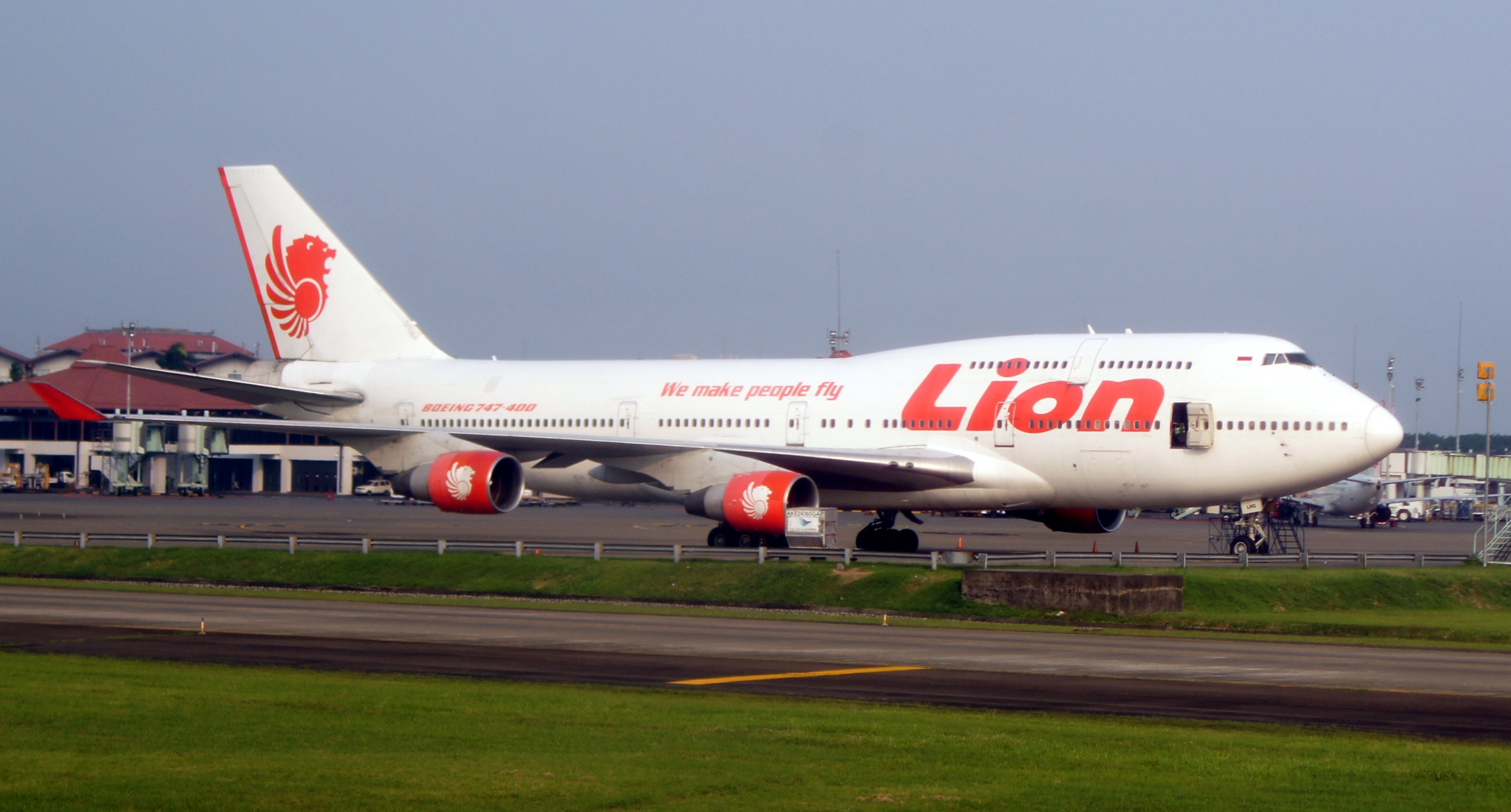 13/12/1989 9V-SME Singapore Airlines ??/06/2004 TF-AMB Air Atlanta Icelandic 23/07/2004 TF-AMB Iberia 31/06/2006 B-LFB Oasis Hong Kong Airlines 10/9/2008 N465BB Boeing Aircraft Holding Company 23/4/2009 PK-LHG Lion Air Copyright 2013 PK-REN